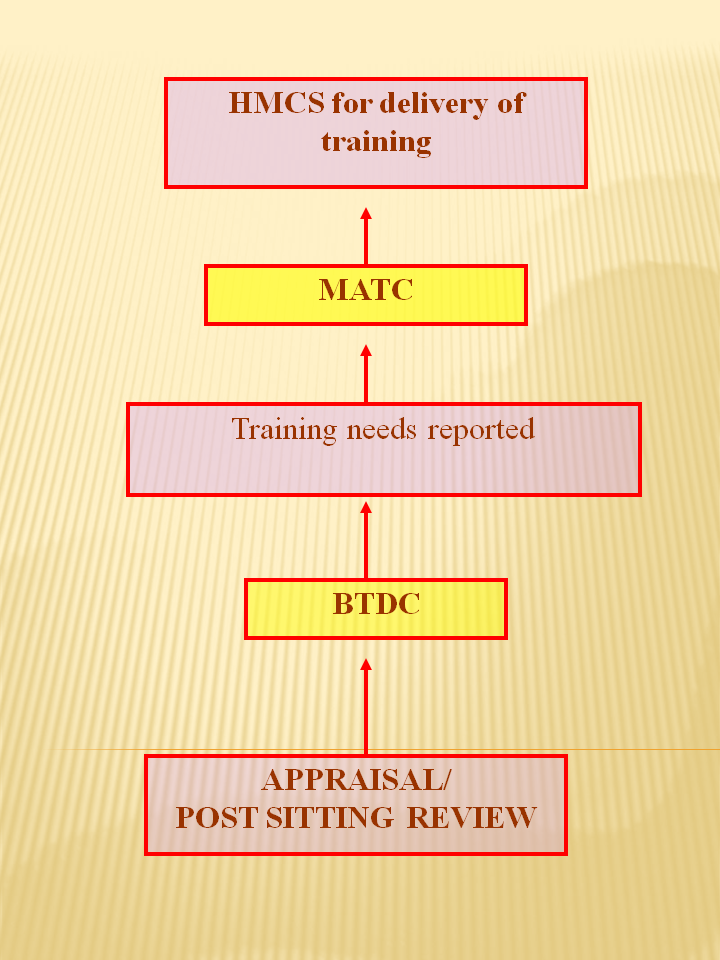 MNTI training needs